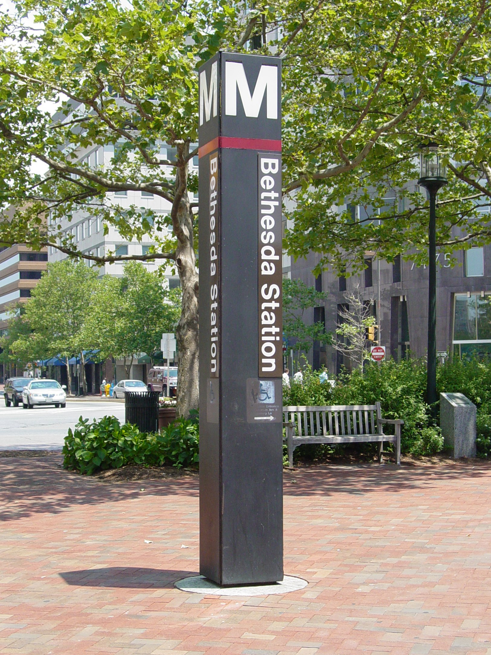 Bethesda Metro station entrance pylon.